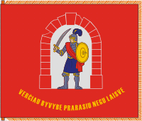 Flag of Kernavė (Lithuania)